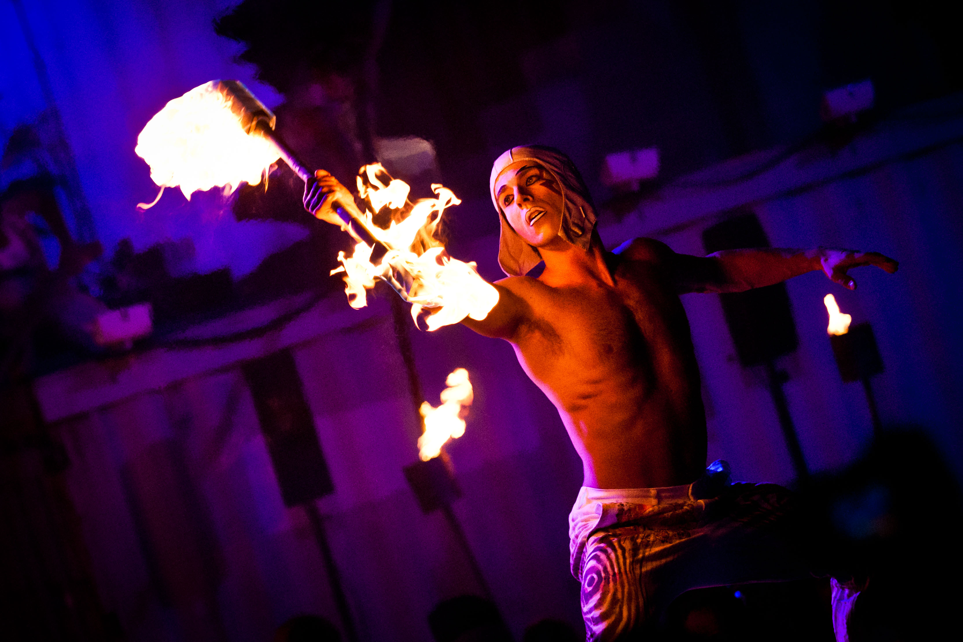 A free outdoor performance by Cirque du Soleil, under the Dufferin-Montmorency highway in Quebec City Everything was in French and I totally did not understand a single word. The performances were great though! Quebec City, Quebec